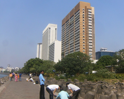 Nariman point, Mumbai south